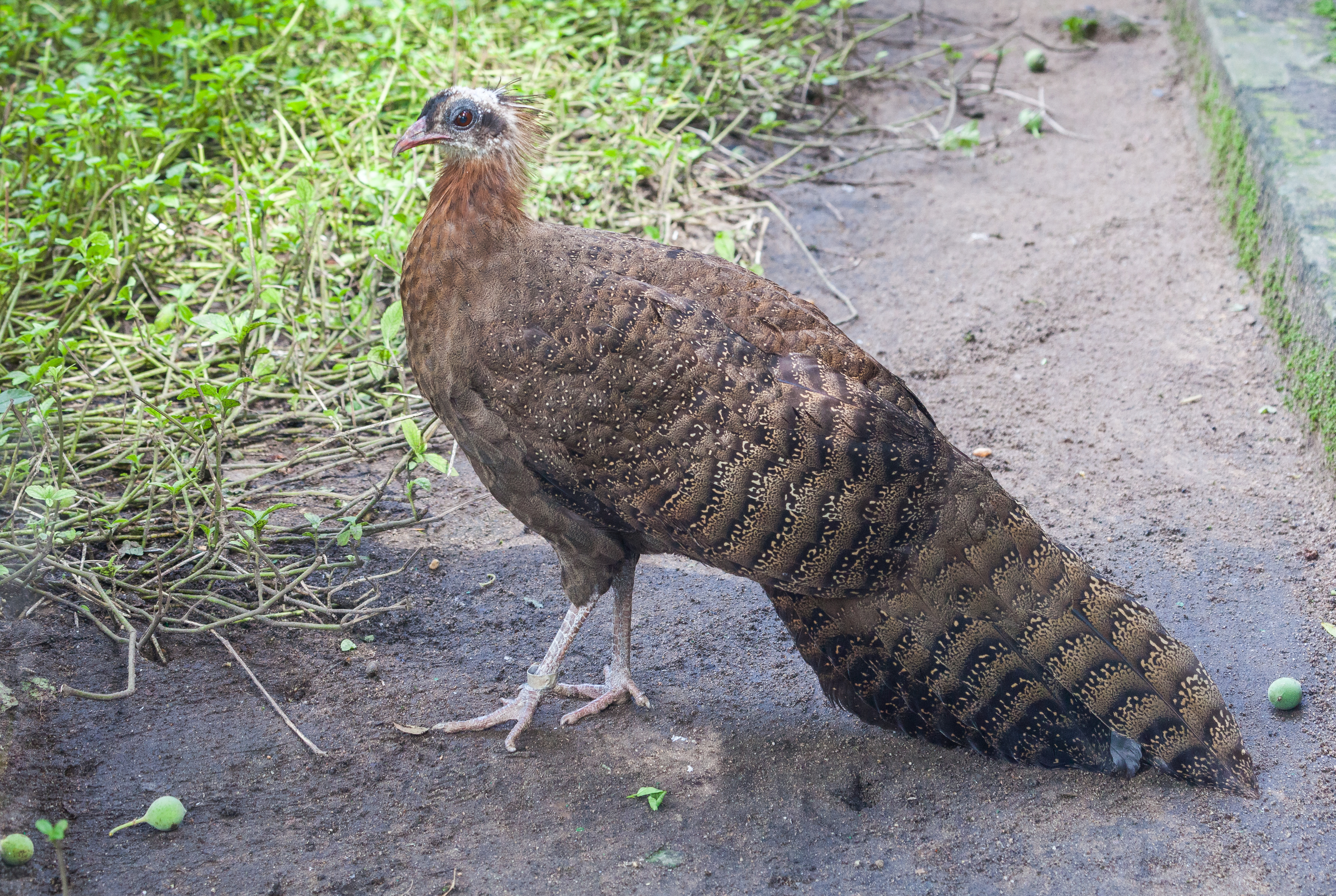 Crested Argus (Rheinardia ocellata), Ho Chi Minh City Zoo, Vietnam